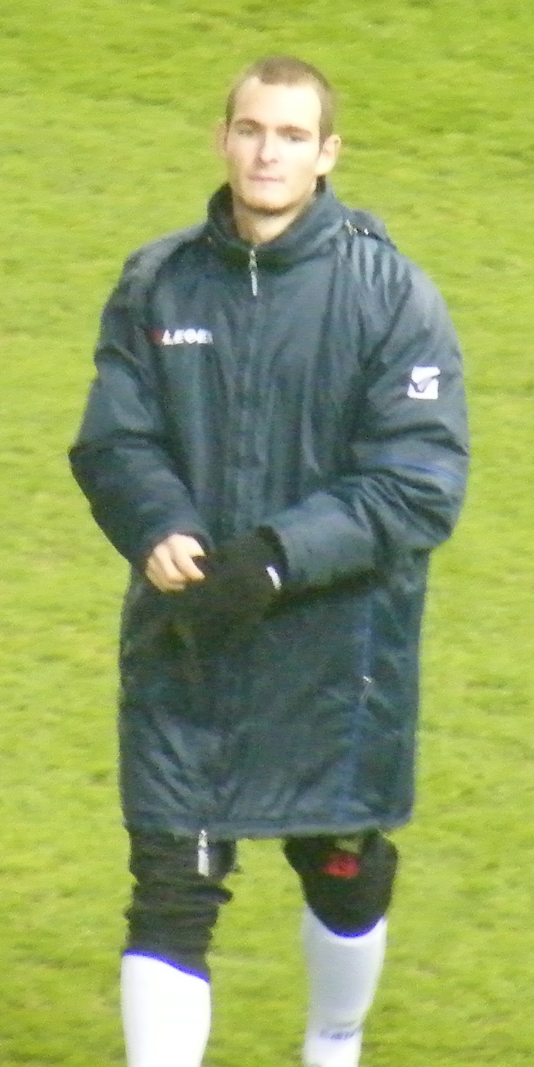 Ádám Simon Hungarian football player